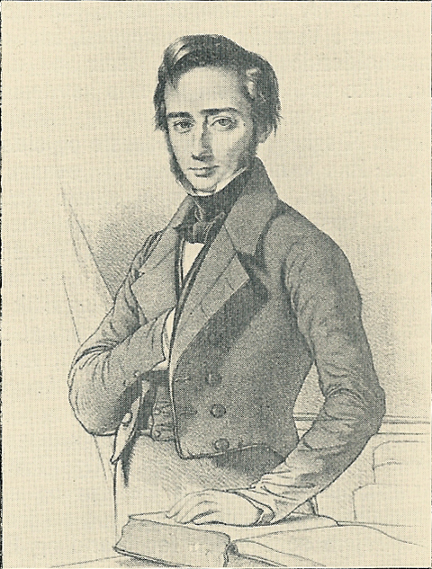 Hans Lassen Martensen som ung. Litografi efter maleri af D. Monies.